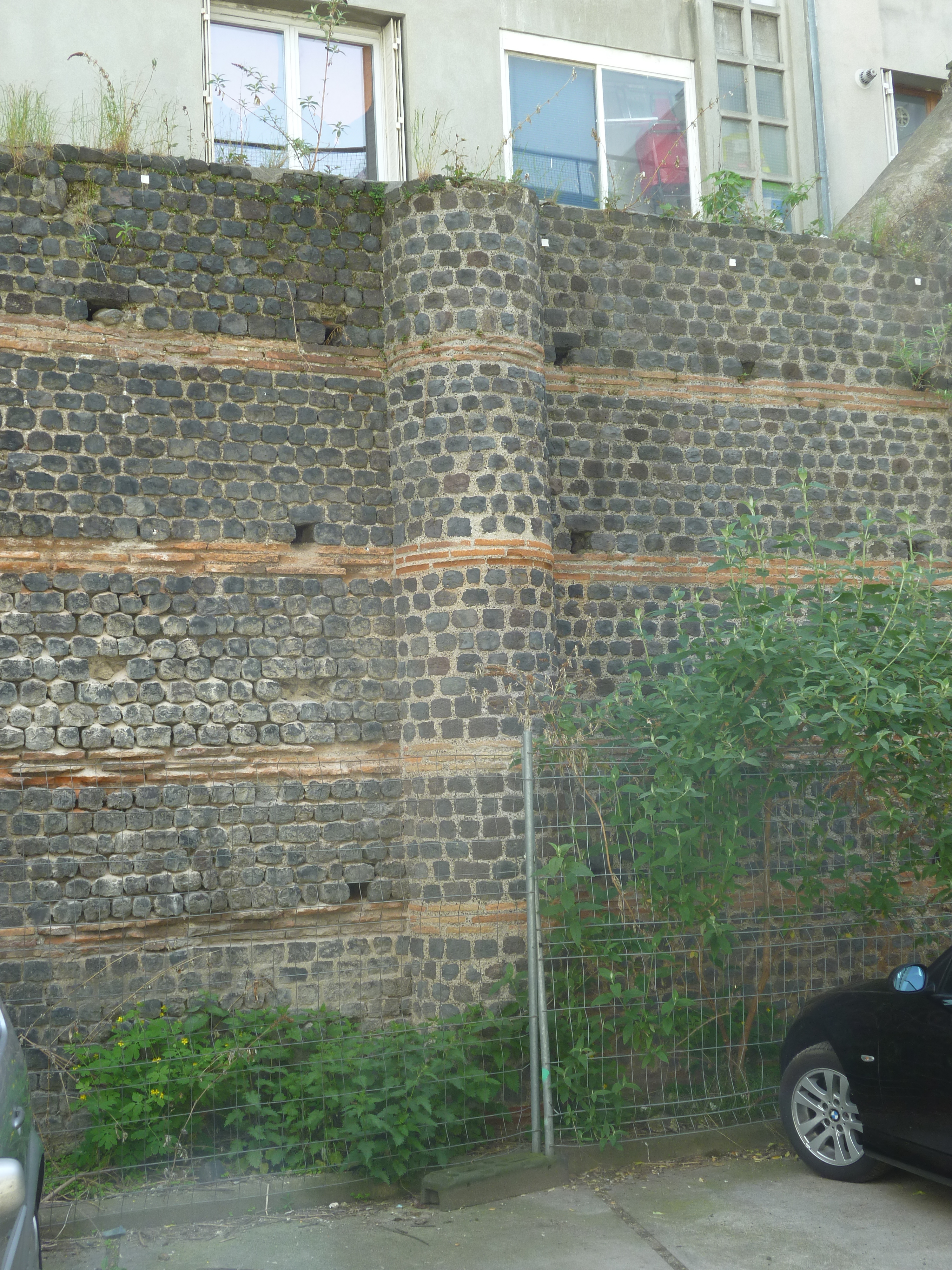 Wall of the Saracens, last remaining wall of the Temple of Vasso Galate. Clermont-Ferrand, France.